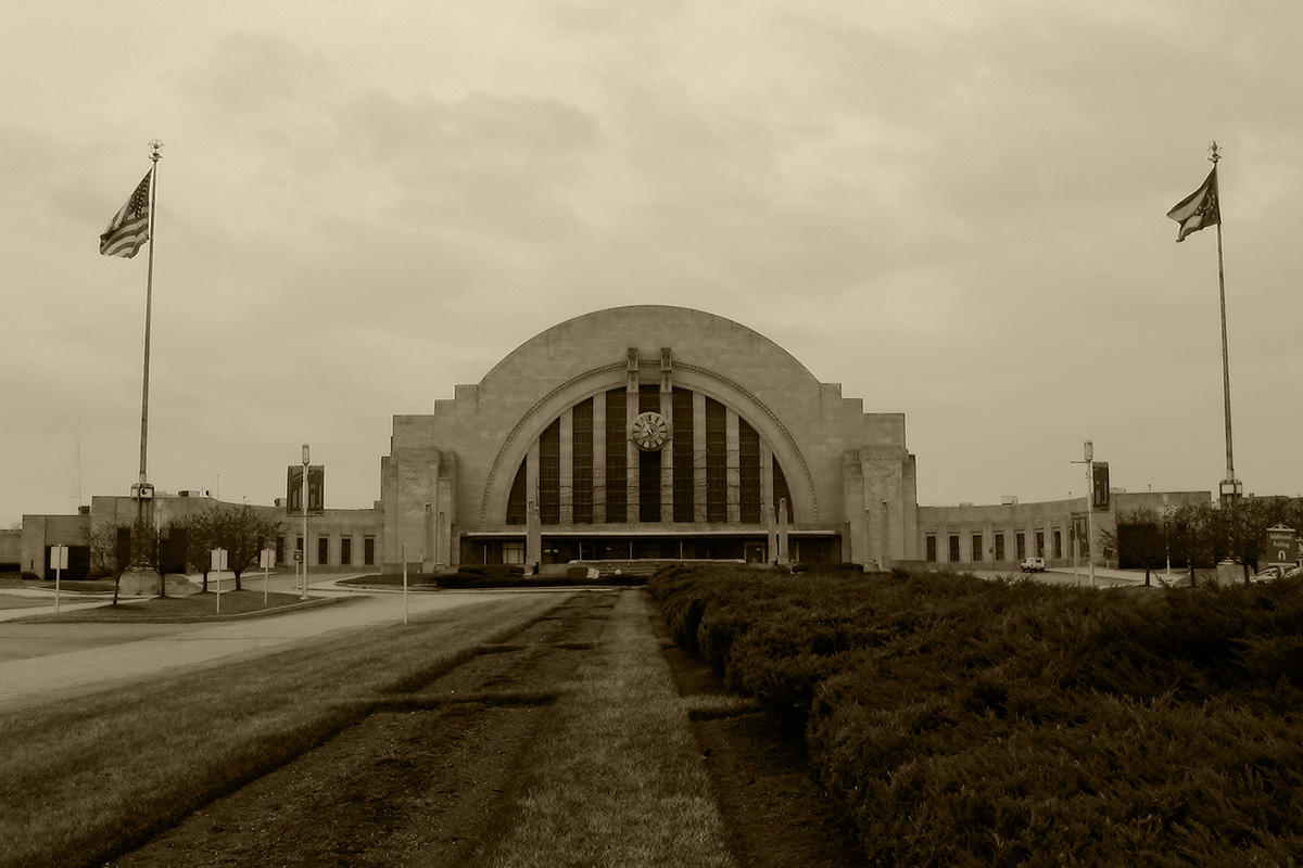 Cincinnati Museum Center as seen from Ezzard Charles Dr.